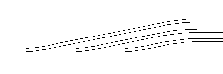 A track ladder diagram with turnouts on main track